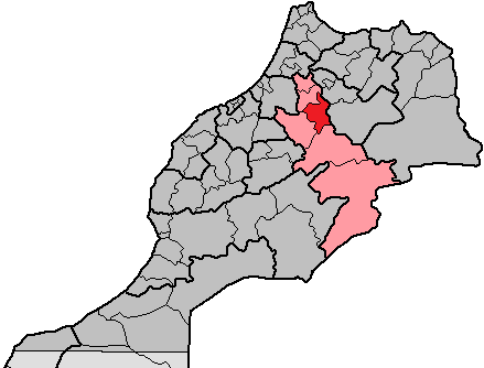 Location of the province Ifrane within the region Meknès-Tafilalet, Morocco. In total, Morocco has 16 regions, subdivided into 62 provinces and 13 prefectures.